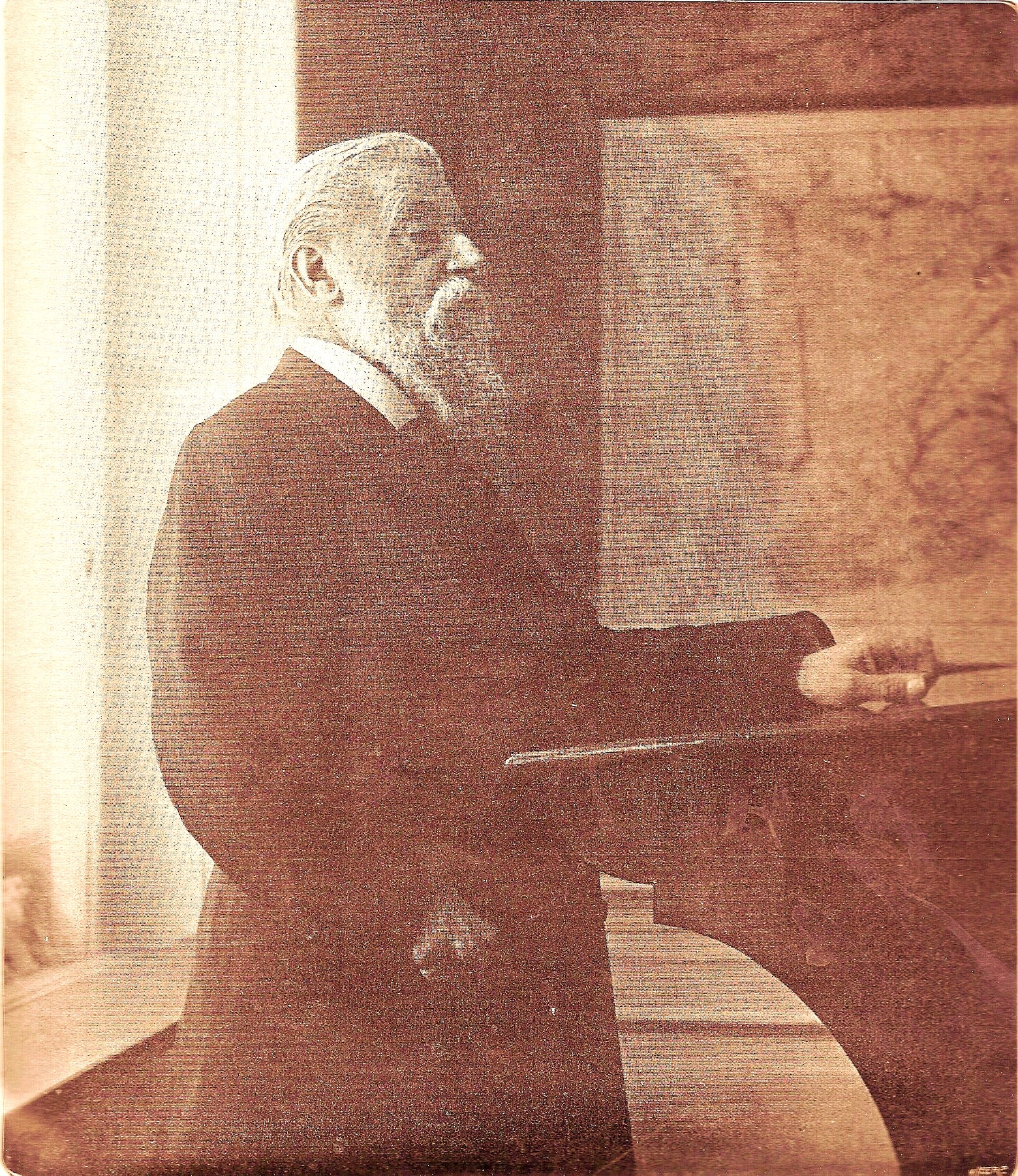 Prof. Dr. J. Verdam